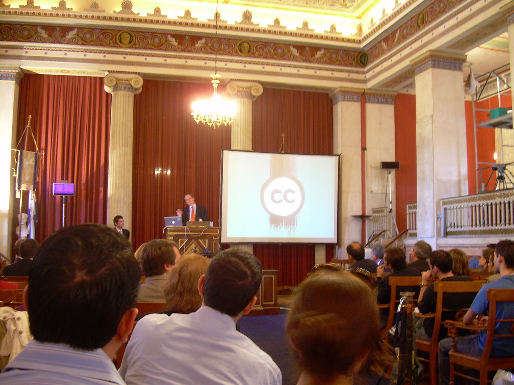 Creative Commons launch in Greece 13 October 2007 University of Athens Official Hall of Events Panepistimiou Str. Έναρξη των Creative Commons στην Ελλάδα 13/10/2007 ΑΙΘΟΥΣΑ ΤΕΛΕΤΩΝ ΠΑΝΕΠΙΣΤΗΜΙΟΥ ΑΘΗΝΩΝ ΛΕΩΦΟΡΟΣ ΠΑΝΕΠΙΣΤΗΜΙΟΥ 30, ΑΘΗΝΑ